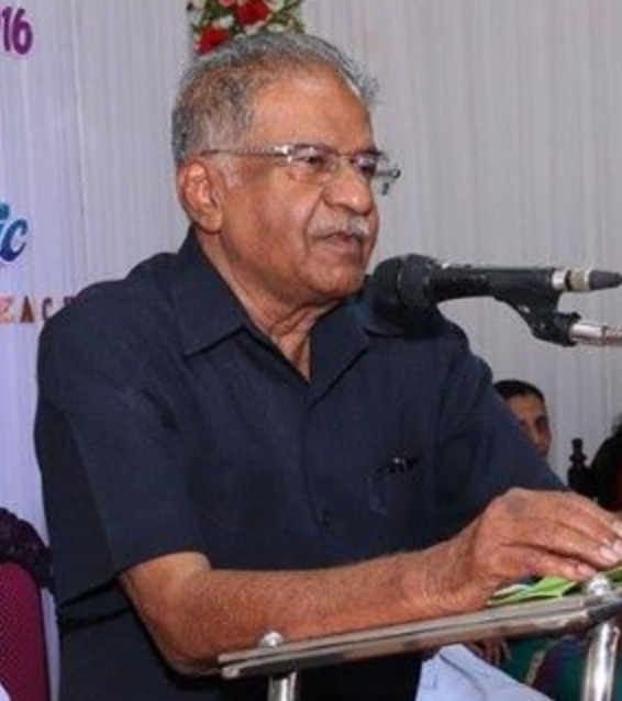 Former Chief Justice of Kerala